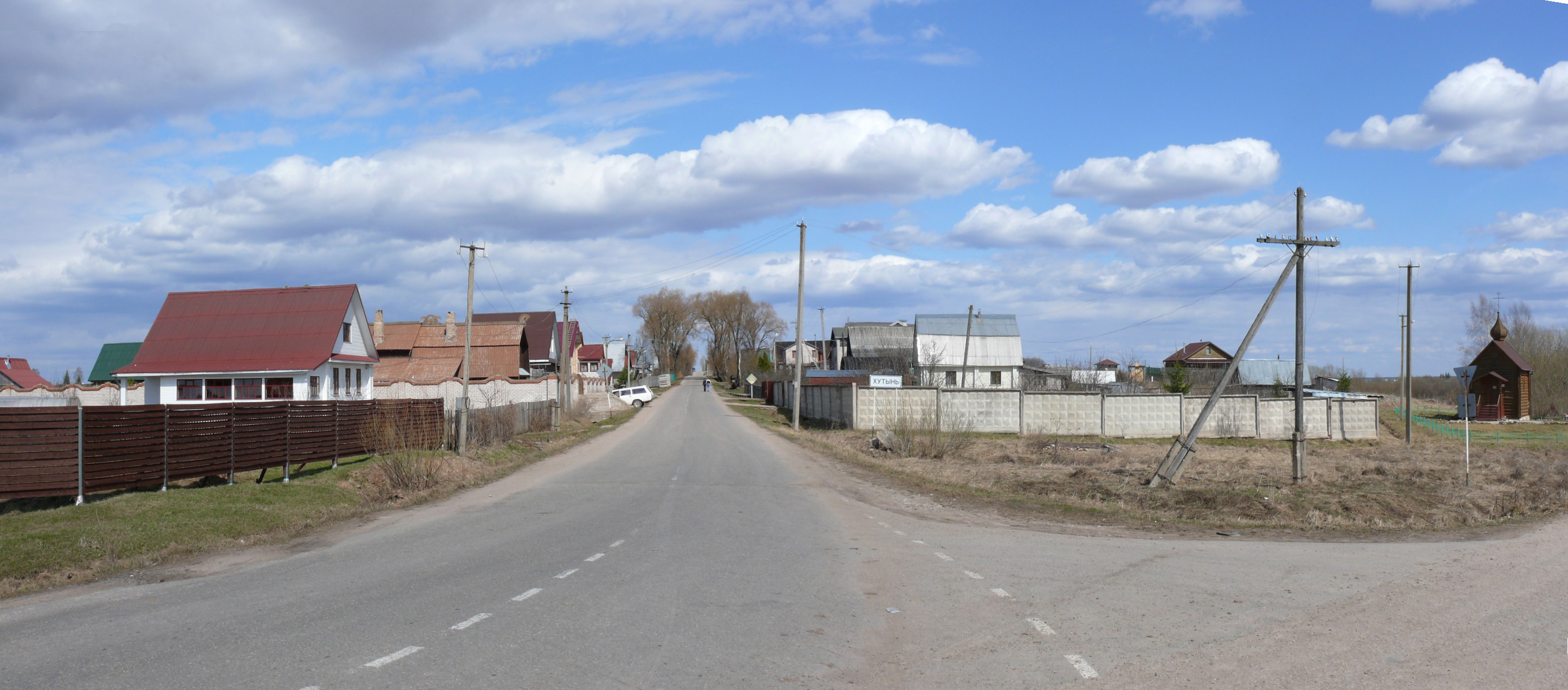 Monastyrskaya street in Khutyn village. Novgorod oblast, Russia